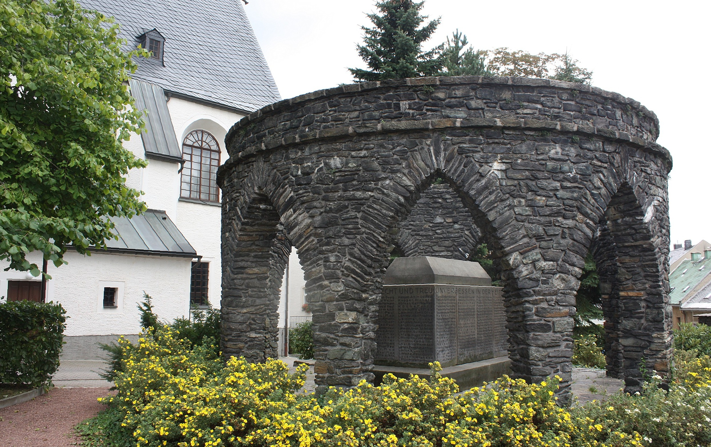 Ehrenfriedersdorf, the war memorial